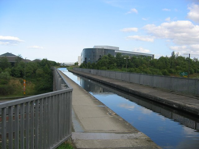 Scott Russell aqueduct, Hermiston. Union Canal crossing the city bypass. for pictures of the original naming ceremony and some historical remarks.